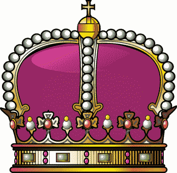 german Landgraf crown